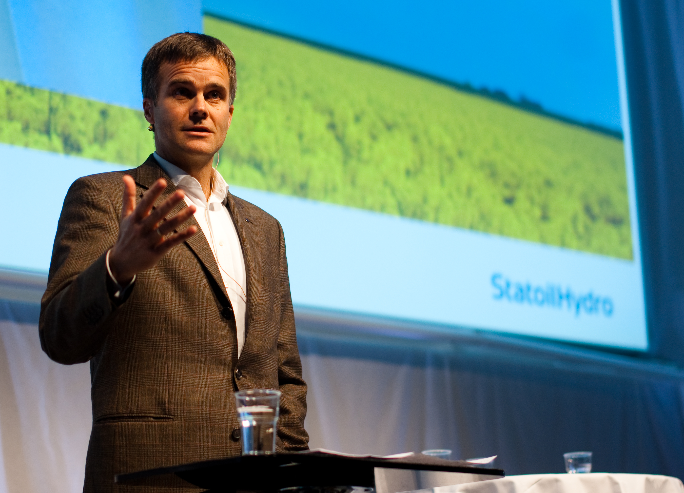 Helge Lund, CEO - StatoilHydro at NTNU, UKA-09